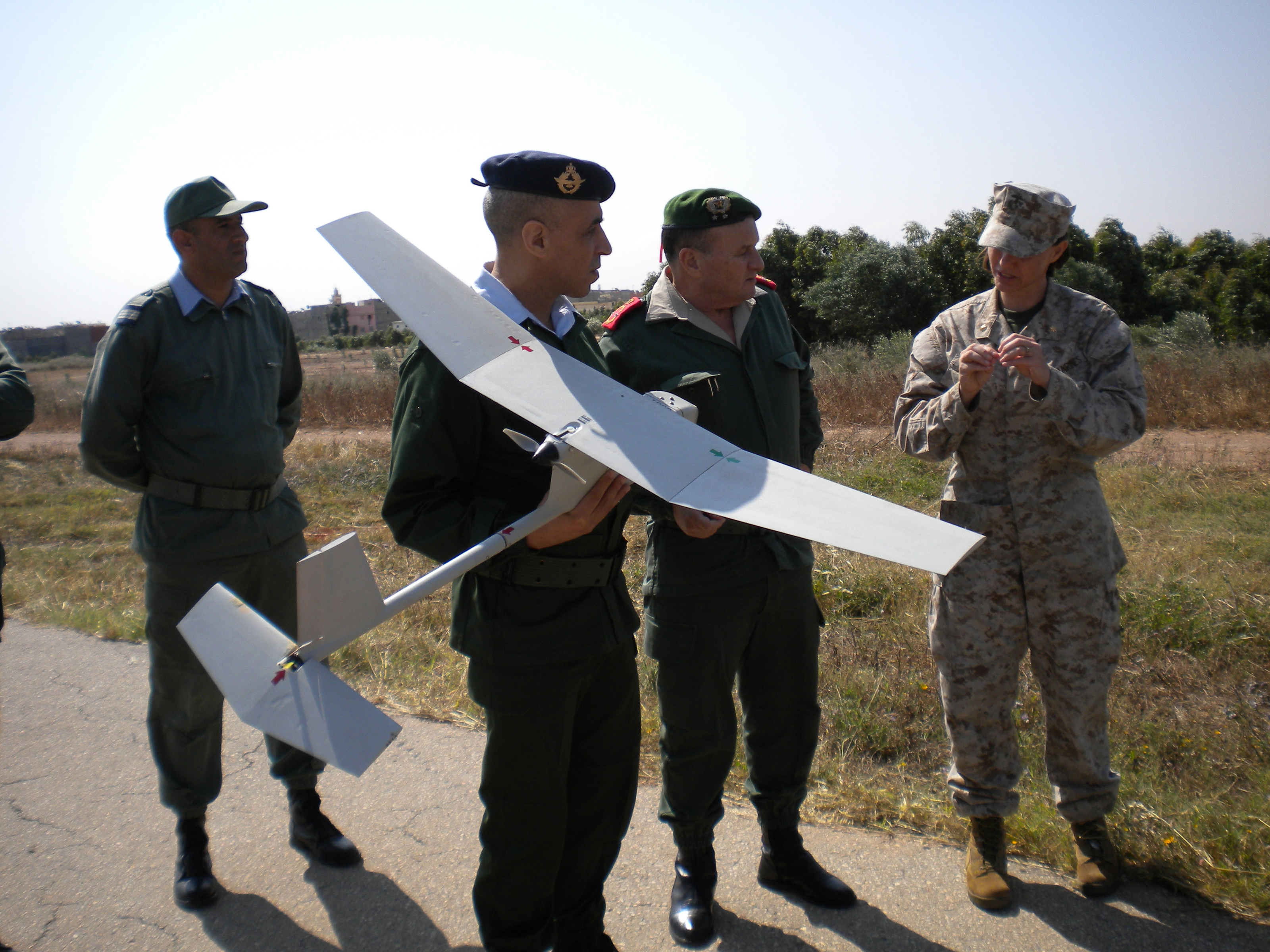 Members of the Royal Moroccan Army receive an explanation of the RAVEN unmanned aerial vehicle's capabilities from U.S. Marine Maj. Shannon C. Greene during the first intelligence staff training course here, May 13. The course is the first of its type to be facilitated by U.S. Marine Forces Africa during an AFRICAN LION. AFRICAN LION 2010, a combined U.S.-Moroccan exercise designed to promote interoperability and mutual understanding of each nation’s military tactics, techniques and procedures. It brings together nearly 1,000 U.S. service members from 16 locations throughout Europe and North America with more than 1,000 members of the Moroccan military. The exercise is scheduled to end on or around June 9. All U.S. forces will return to their home bases in the United States and Europe at the conclusion of the exercise.